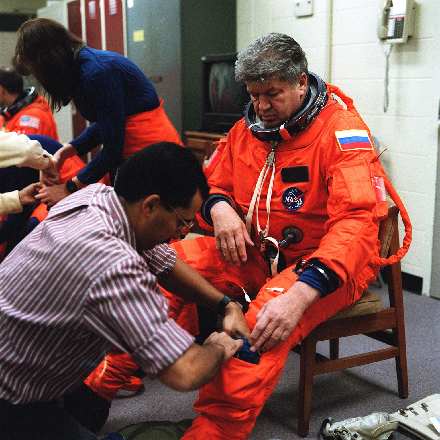 Cosmonaut Valery V. Ryumin (right) and astronaut Janet L. Kavandi are assisted by suit techs at the Systems Integration Facility at Johnson Space Center. Ryumin is donning the training version of the shuttle launch and entry garment and Kavandi wears the thermal under garment for the suit yet to be donned. The suit-up came prior to a training session in the crew compartment trainer (CCT-2). Both crewmembers are mission specialists, with Ryumin representing the Russian Aviation and Space Agency.